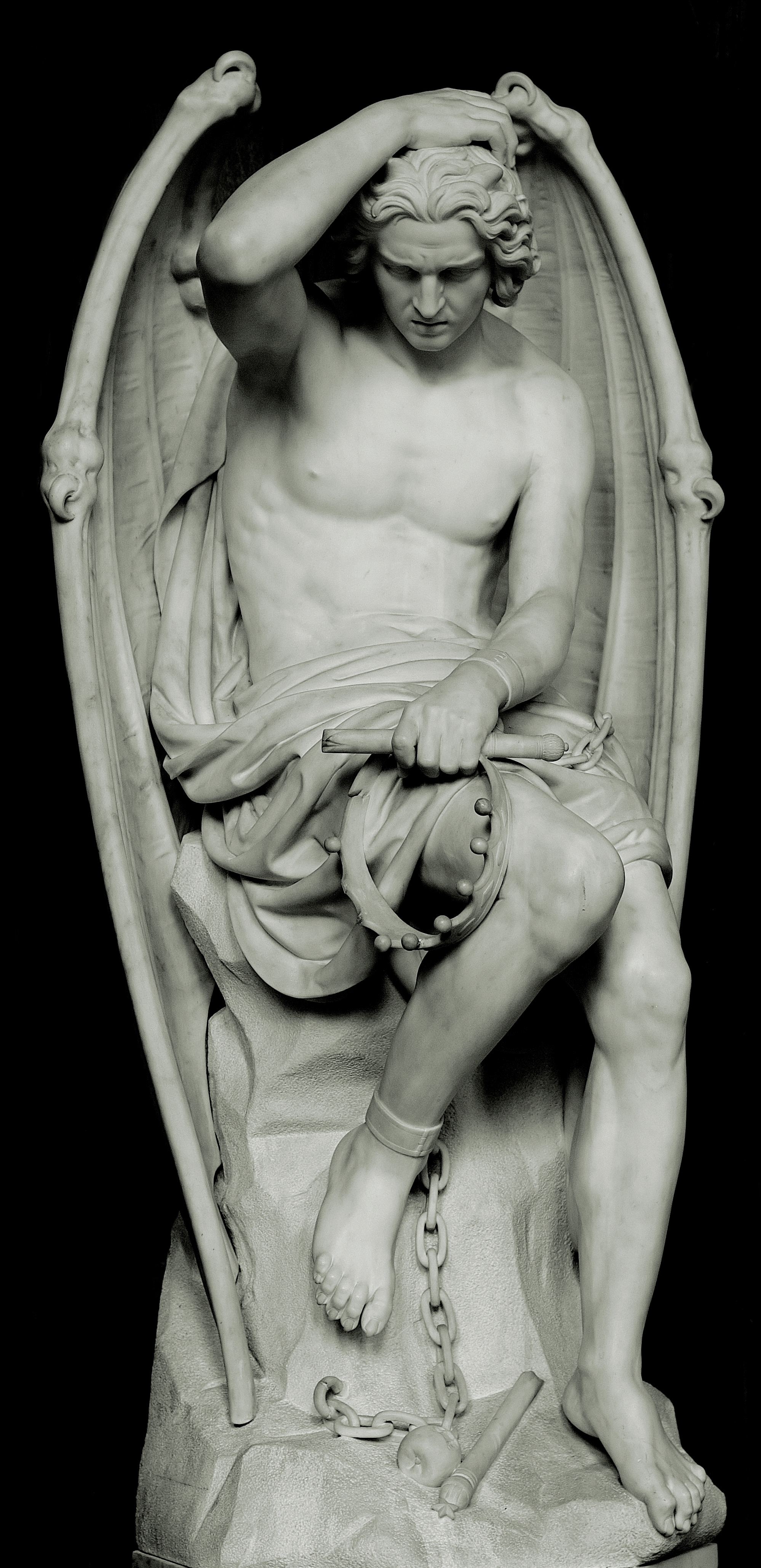 Lucifer Liège (Belgium)